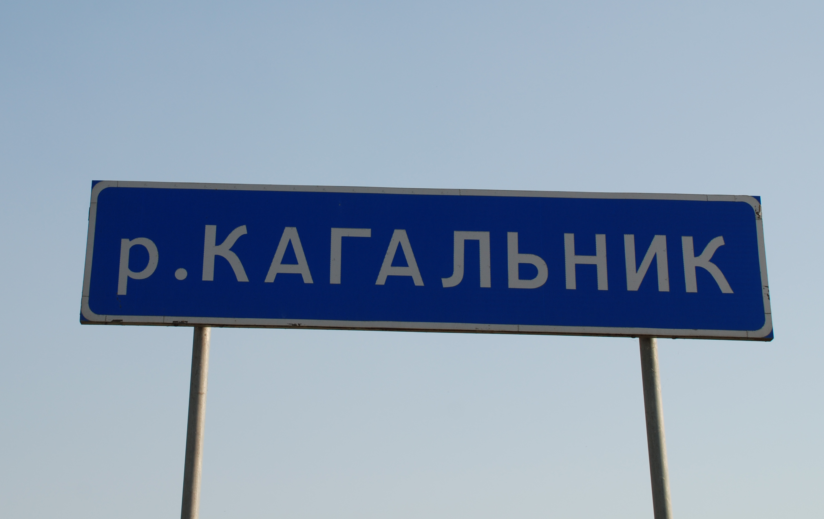 Kagalnik River guide sign.